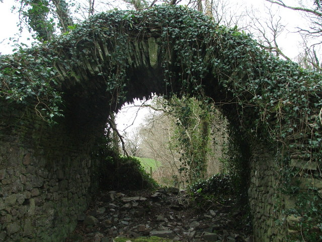 The Sisters' House at Minwear A collection of ruined buildings near the waters edge known as 'The Sisters' House. Used by the knights templars.